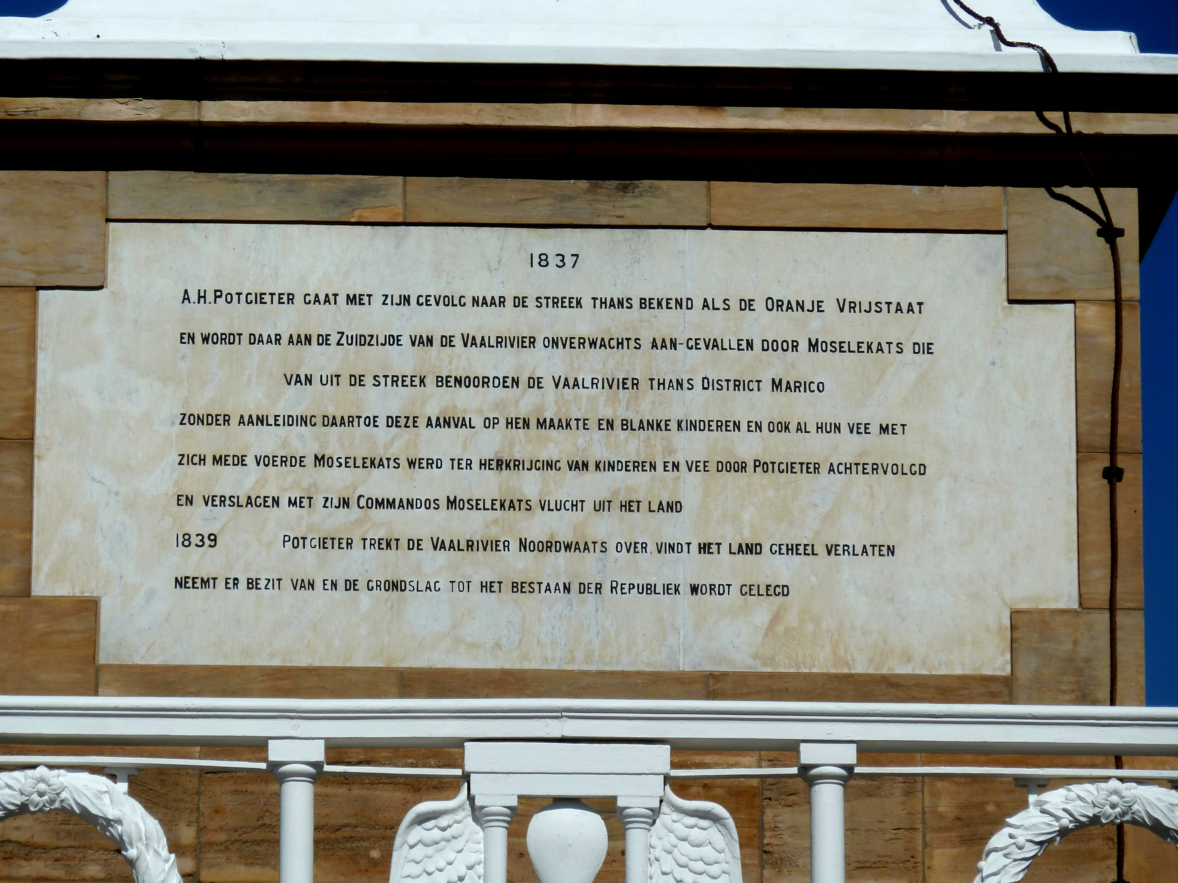 Paardekraal, east facet, that reads:1837 A.H. Potgieter went with his company to the region now known as the Orange Free State, where on the south side of the Vaal river he was unexpectedly attacked by Mzilikazi who from the region north of the Vaal river, now district Marico, without provocation thereto launched this attack on him, and carried off white children besides all their livestock. Mzilikazi was in a quest to recover the children and livestock pursued and defeated by Potgieter and his Commandos. Mzilikazi fled from the country.1839 Potgieter trekked north traversing the Vaal river, found the land completely desolate and took possession of it and the basis was established for the existence of the Republic.